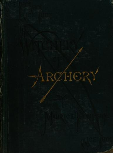 Front cover of The Witchery of Archery